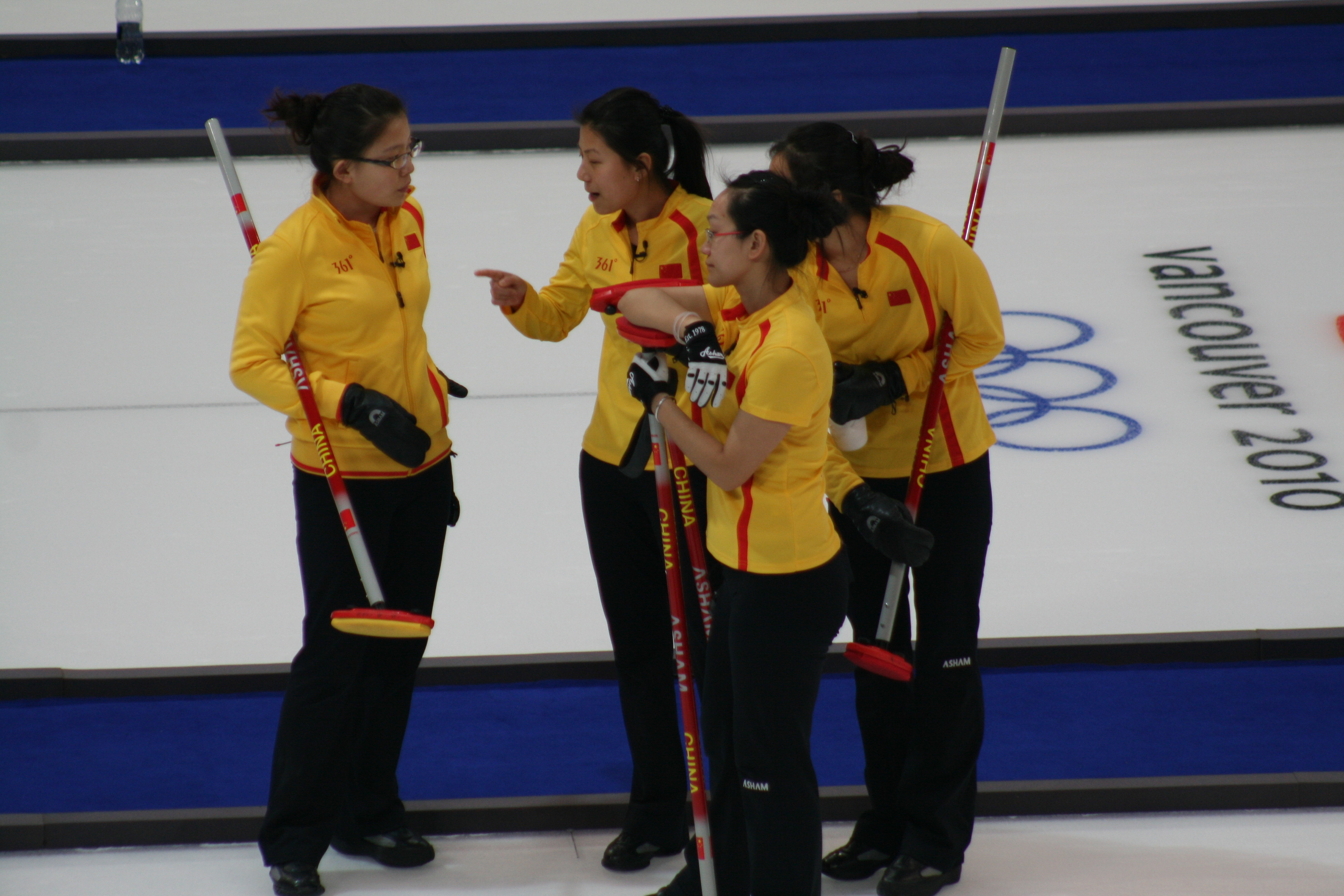 Team China (l to r): Wang Bingyu, Liu Yin, Zhou Yan and Yue Qingshuang (back)